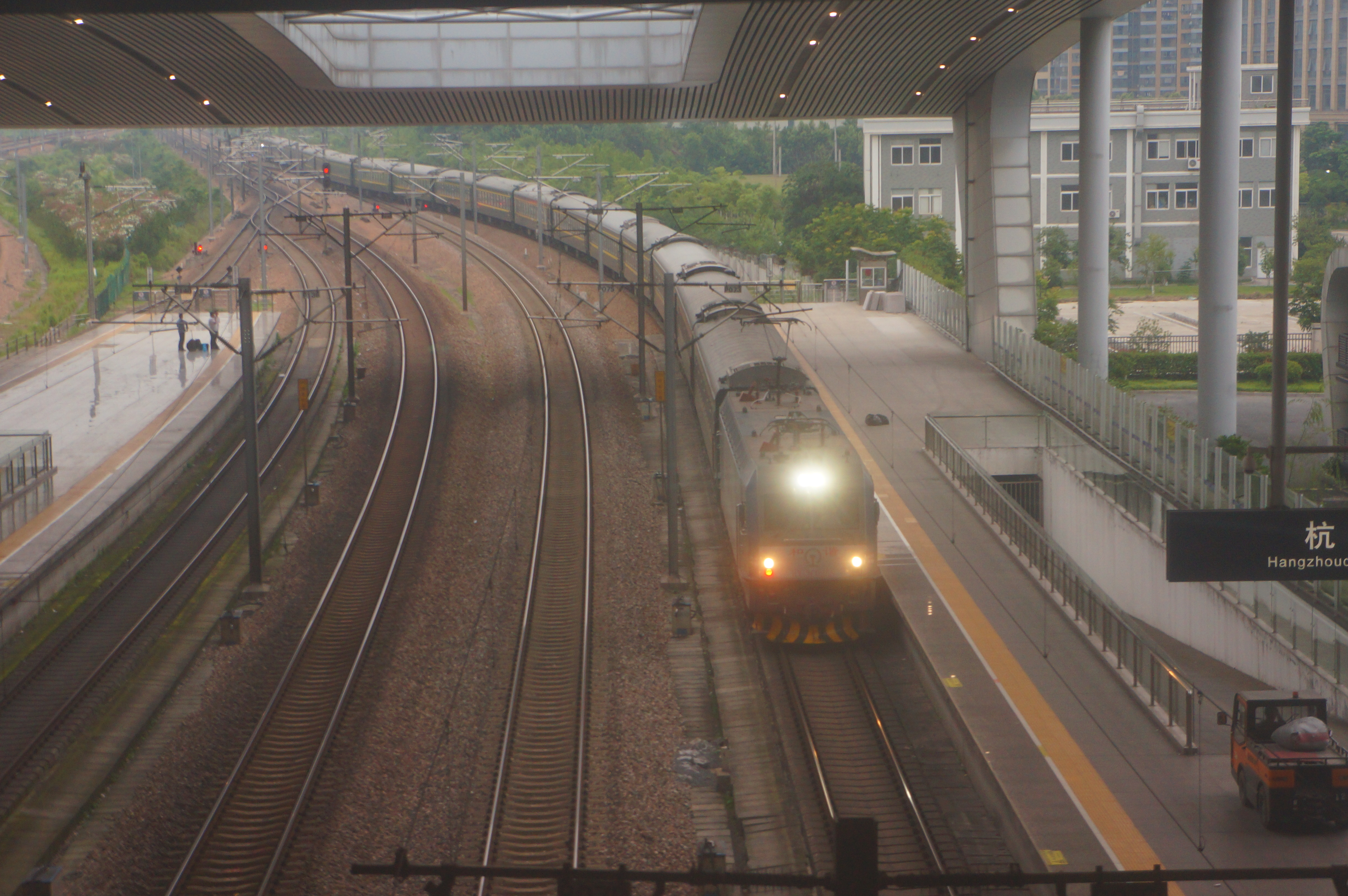 201806 HXD3C hauls K351 at Hangzhoudong Station